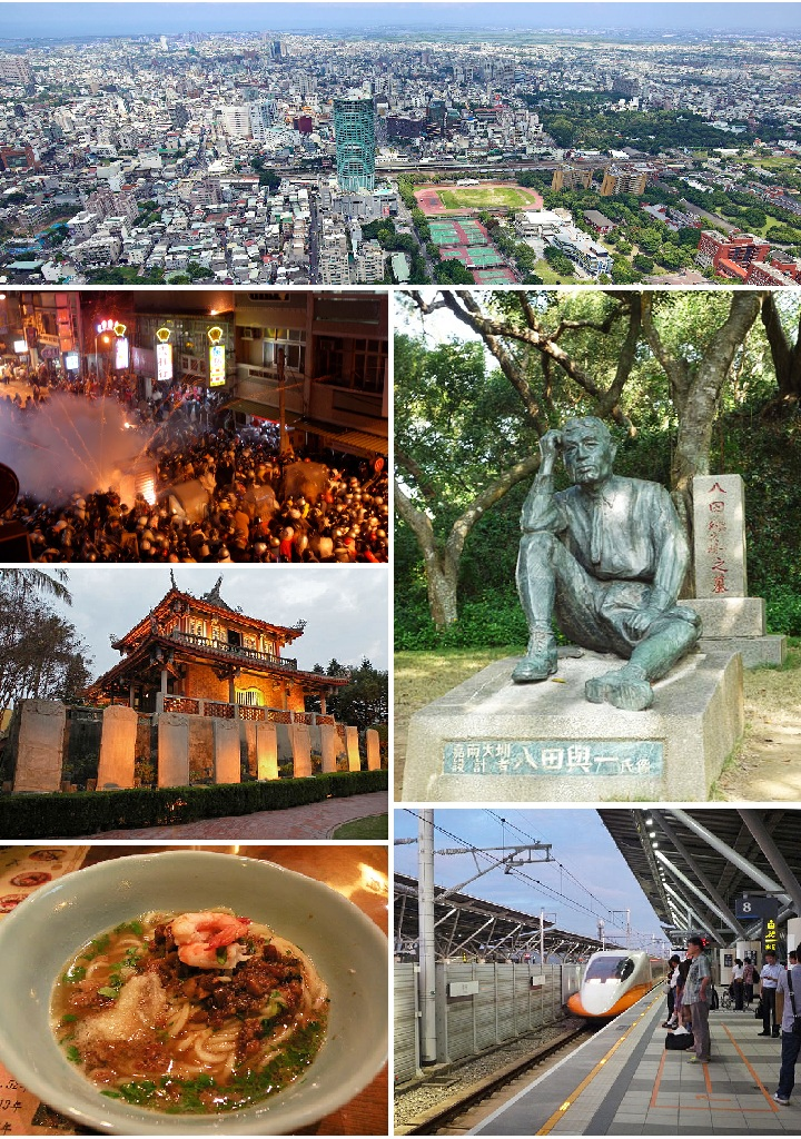 A: Downtown of Tainan City. B: Bee hives shoot out in Yanshui District. C: Fort Provintia(Chihkan Tower) D: Dan zai noodles, a snack originated in Tainan. E: THSR Tainan Station. F: Statue of Yoichi Hatta, the designer of Chianan Canal and Usantou Reservoir. Bân-lâm-gú: Tâi-lâm-tshī ê kíng-sik. 臺南市的景色。